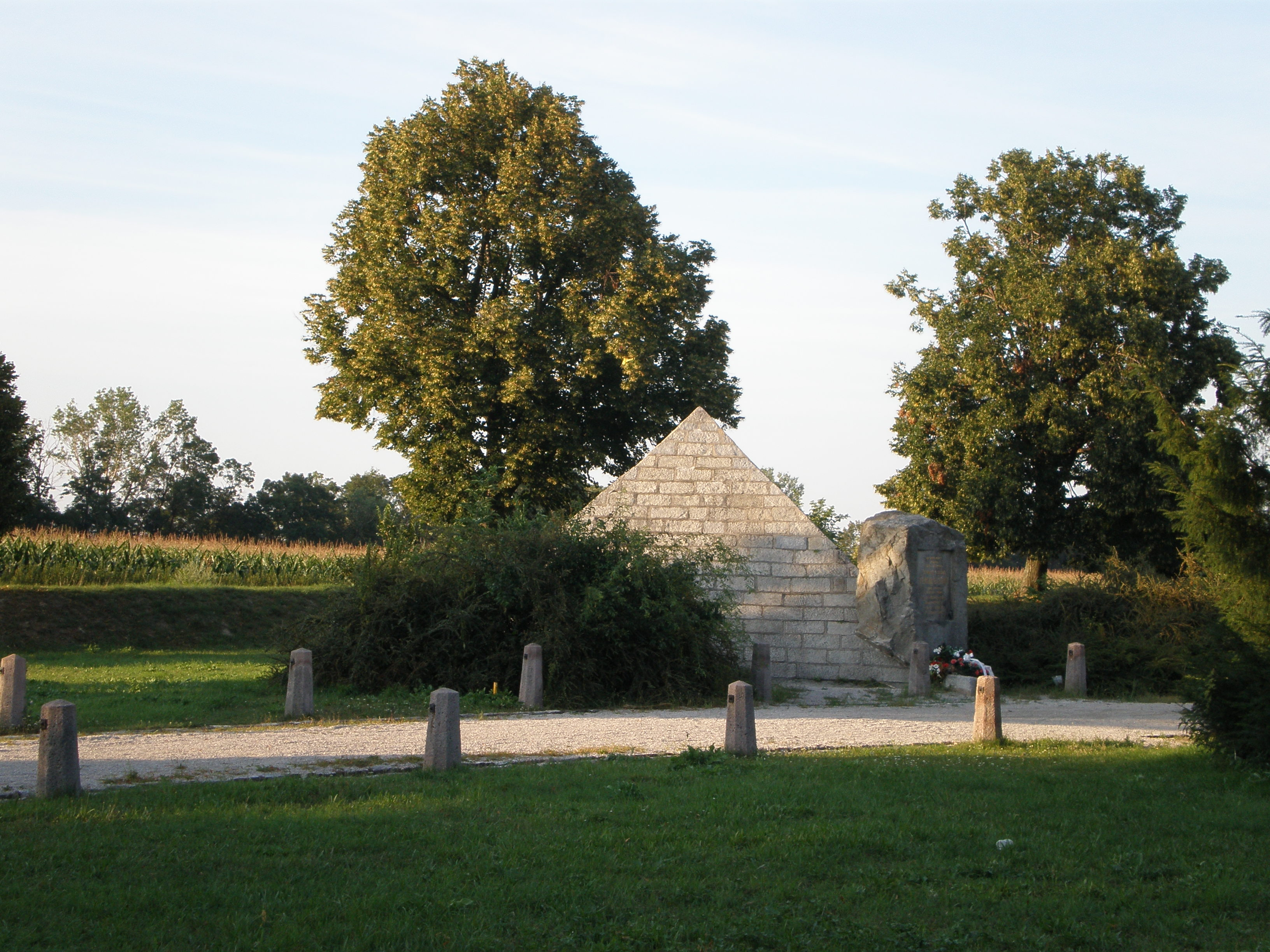 Mohyla in Ivanka